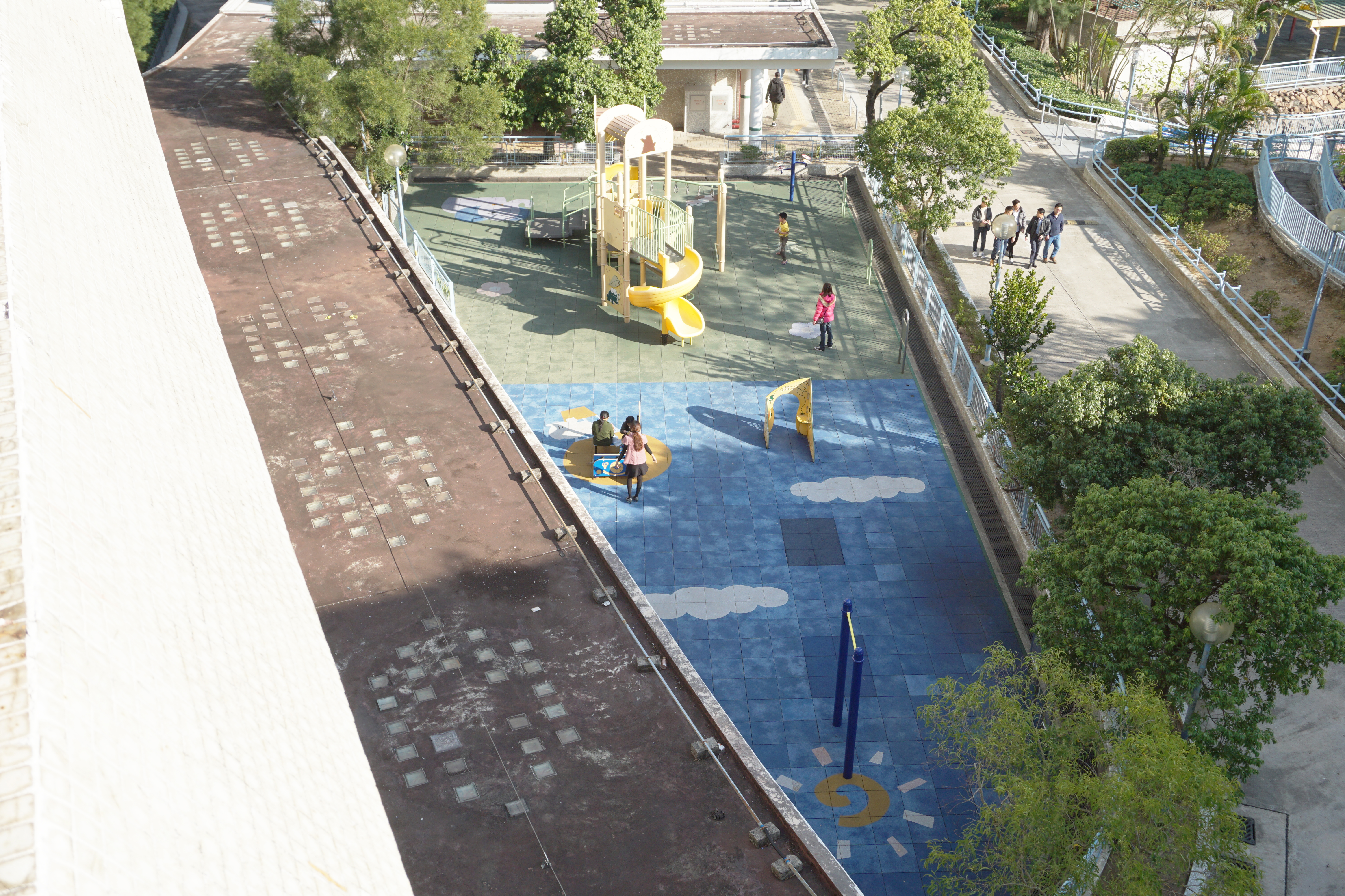 Cheung Hang Estate in Tsing Yi, Hong Kong.